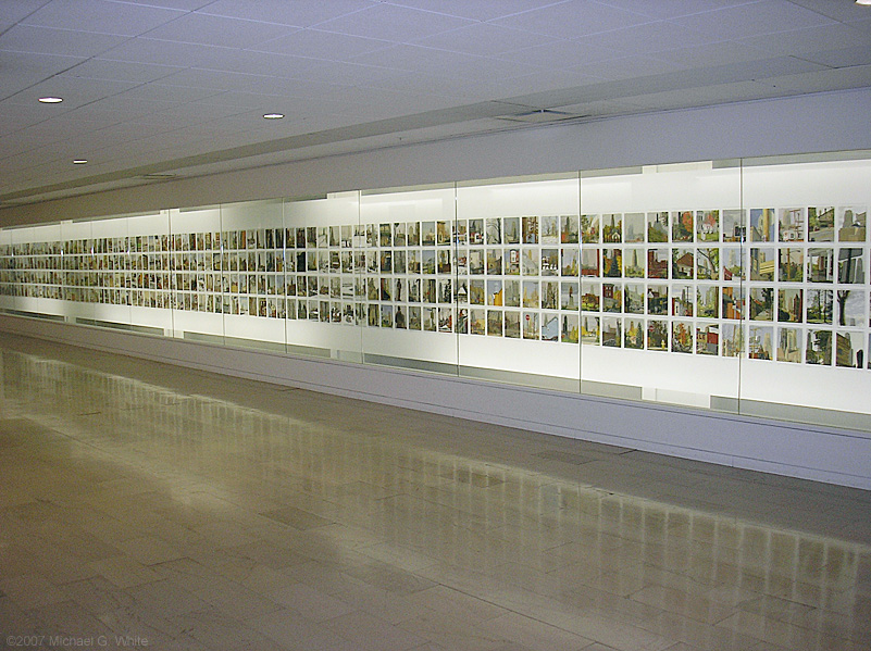 "365 Views of the Cathedral of Learning" by Felix de la Concha on display on the 7th floor of Alumni Hall at the University of Pittsburgh. photo by Michael G White